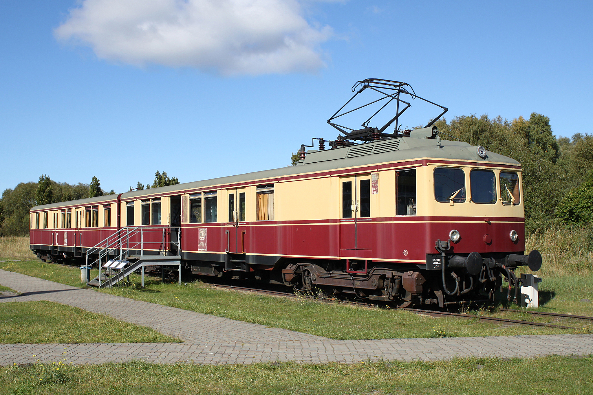 Former DB 426 002/826 602 in Peenemünde.